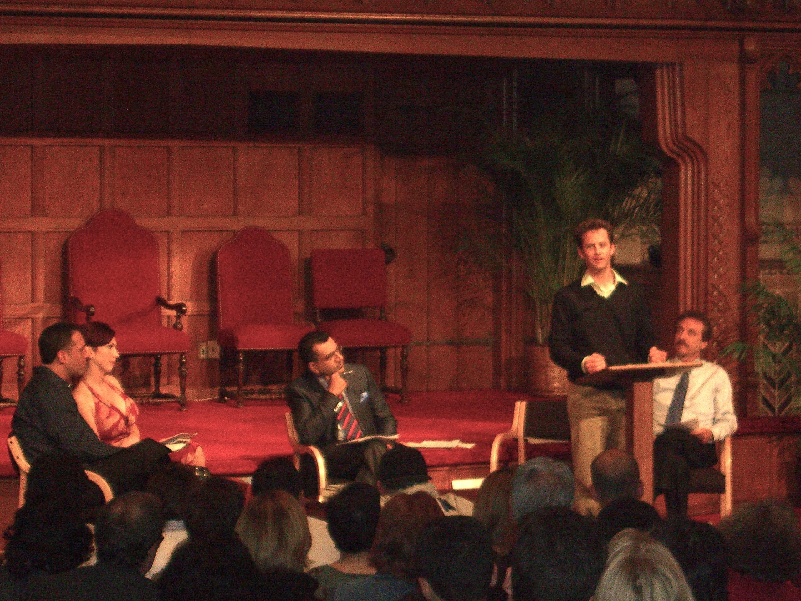 Debate between Rational Response Squad and debate with Way of the Master at Calvary Baptist Church in Manhattan, May 5, 2007. Pictured from left to right are Rational Response Squad founder Brian Sapient, RRS member Kelly O'Connor, Nightline anchor Martin Bashir, and Way of the Master members Kirk Cameron (at podium) and Ray Comfort. This photo was created by Luigi Novi. It is not in the public domain, and use of this file outside of the licensing terms is a copyright violation.